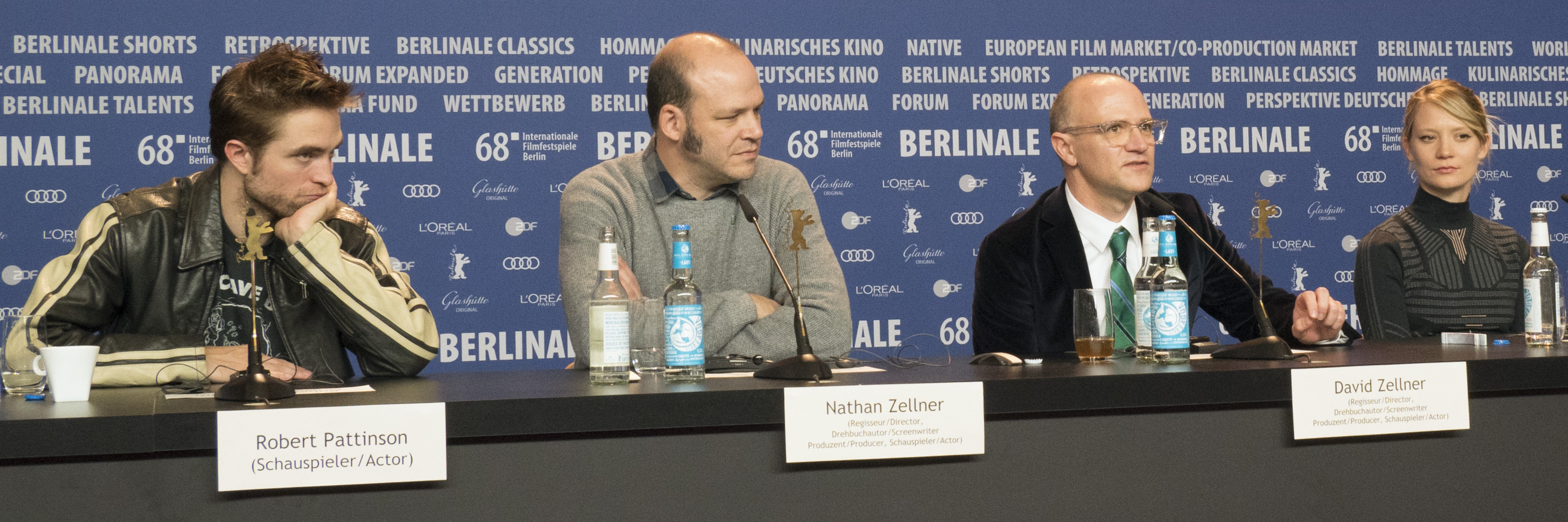 Press conference of Damsel at Berlinale 2018. Robert Pattinson, Nathan Zellner, David Zellner, Mia Wasikowska